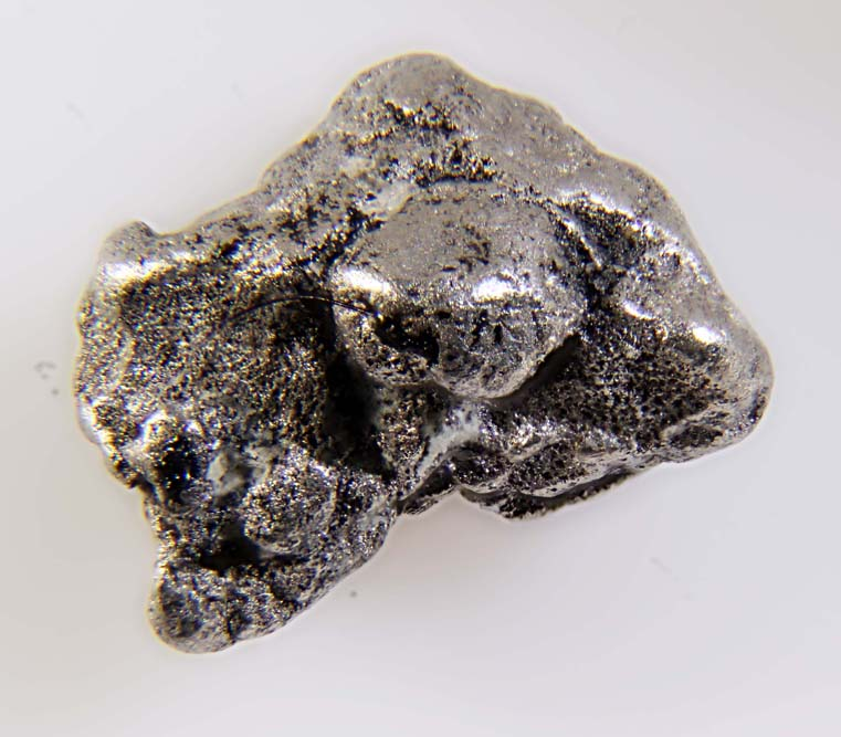 Outstanding specimen of the extremely rare platinum mineral cooperite (PtS). Analyzed specimen. Cooperite is very rarely seen on the mineral market, much less in specimens different from polished sections, like this one, that is a single nugget. From: Tulameen River, Princeton, British Columbia, Canada.